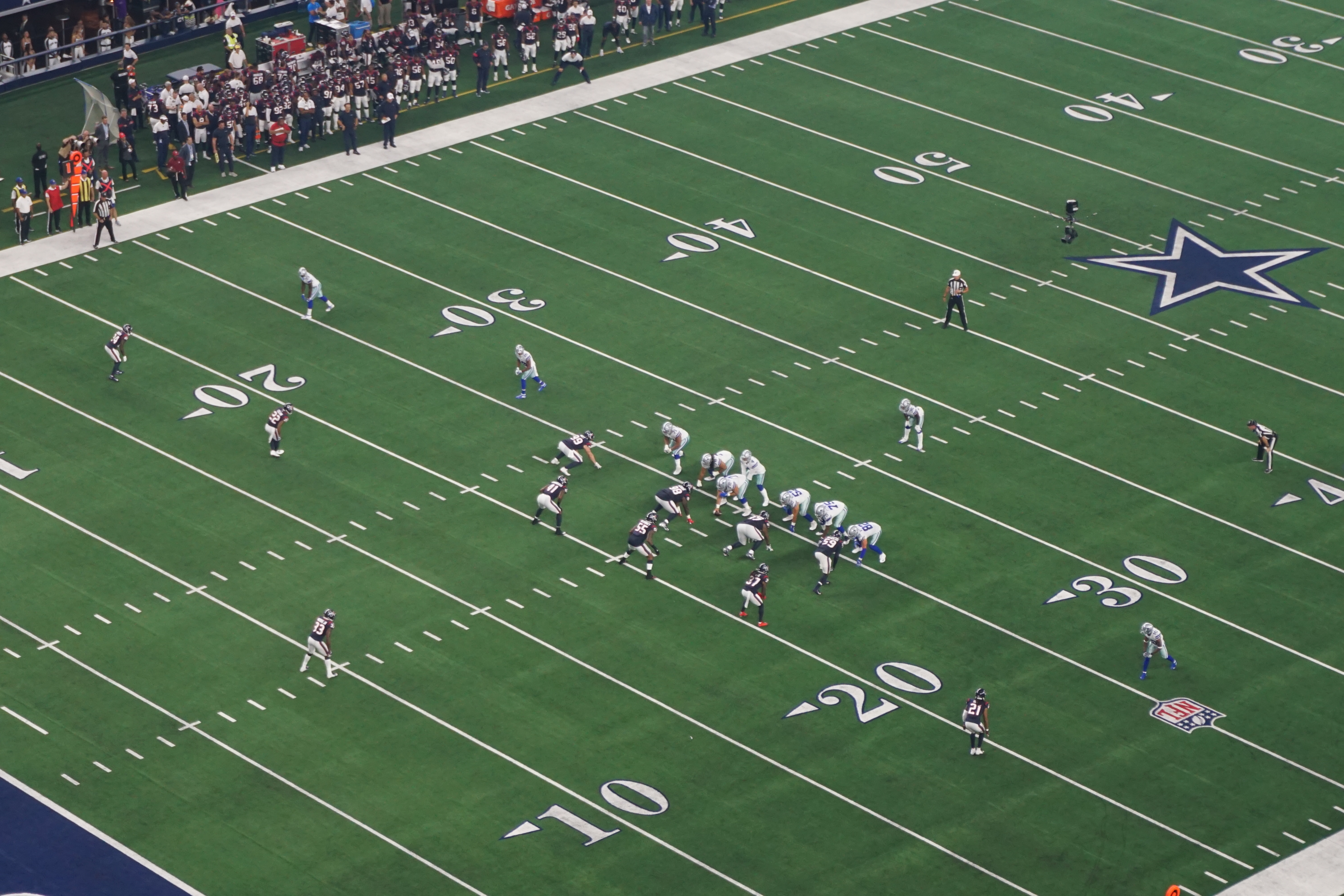 Dallas on offense during the Houston Texans vs. Dallas Cowboys preseason game at AT&T Stadium in Arlington, Texas (United States). Dallas won 34–0.